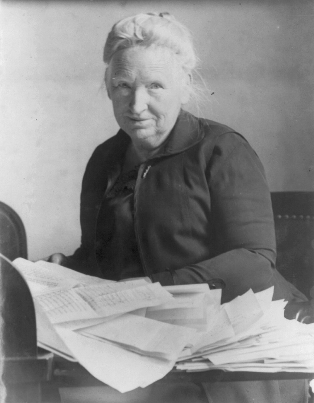 Title: Alice Robertson Abstract/medium: 1 photographic print.